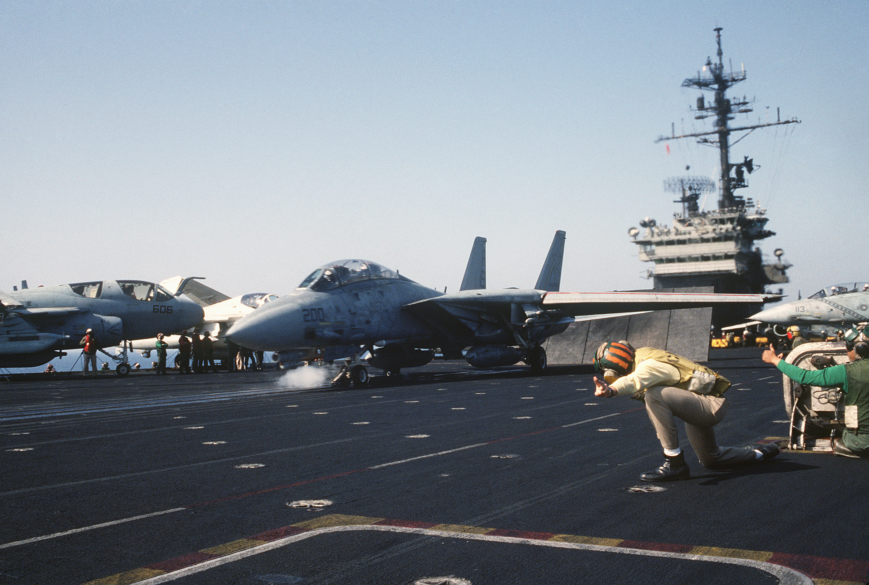 A S. Navy Grumman F-14A Tomcat aircraft from fighter squadron VF-33 Starfighters prepares to take off from the aircraft carrier USS America (CV-66) during flight operations off the coast of Libya. On 15 April 1986 America´s aircraft participated in "Operation El Dorado Canyon", the bombing of Libya.